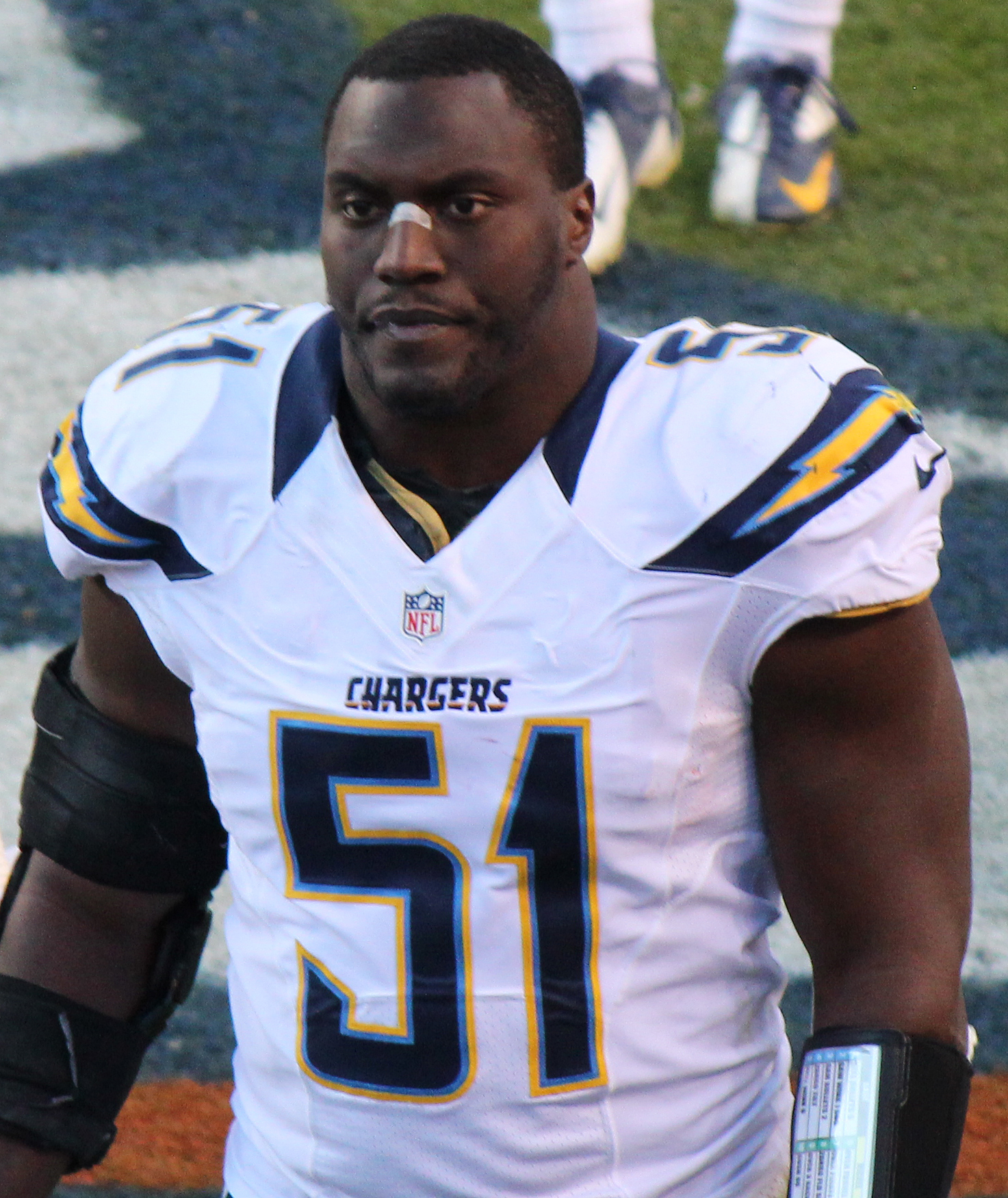 Takeo Spikes, a player on the National Football League.